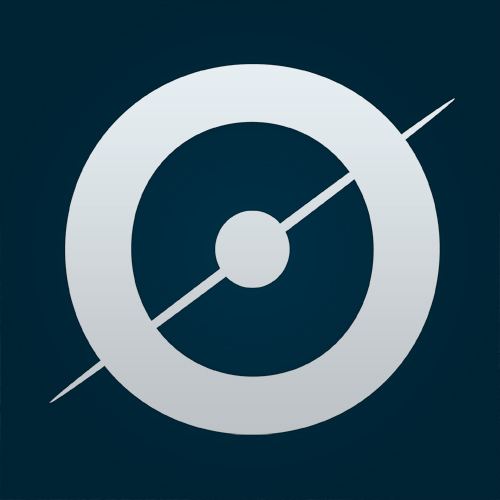 Official Zooniverse avatar